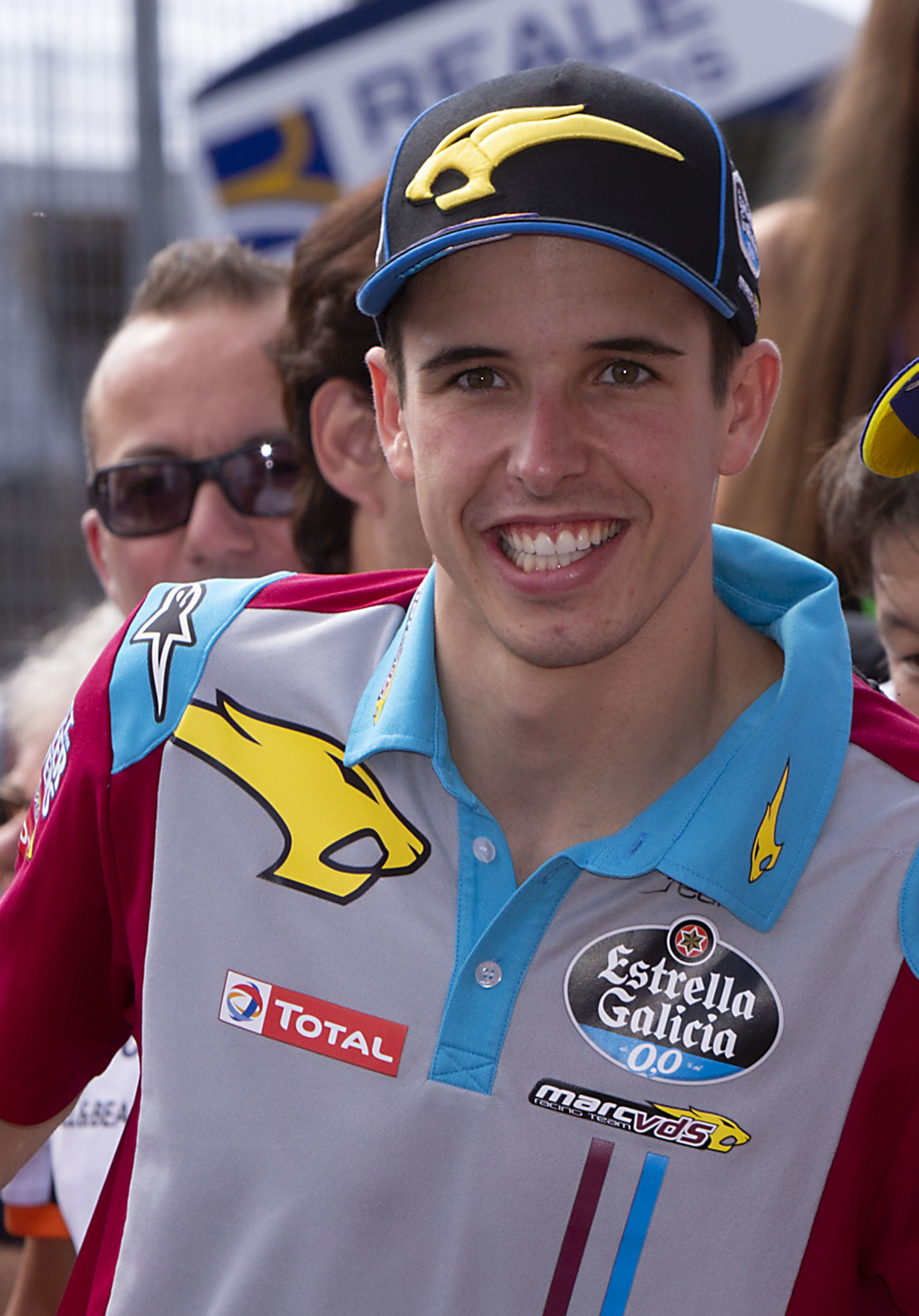 Álex Márquez and Marc Márquez, celebrating at parc fermé after both winning the Moto2 and MotoGP variants of the 2019 Czech Republic Grand Prix.